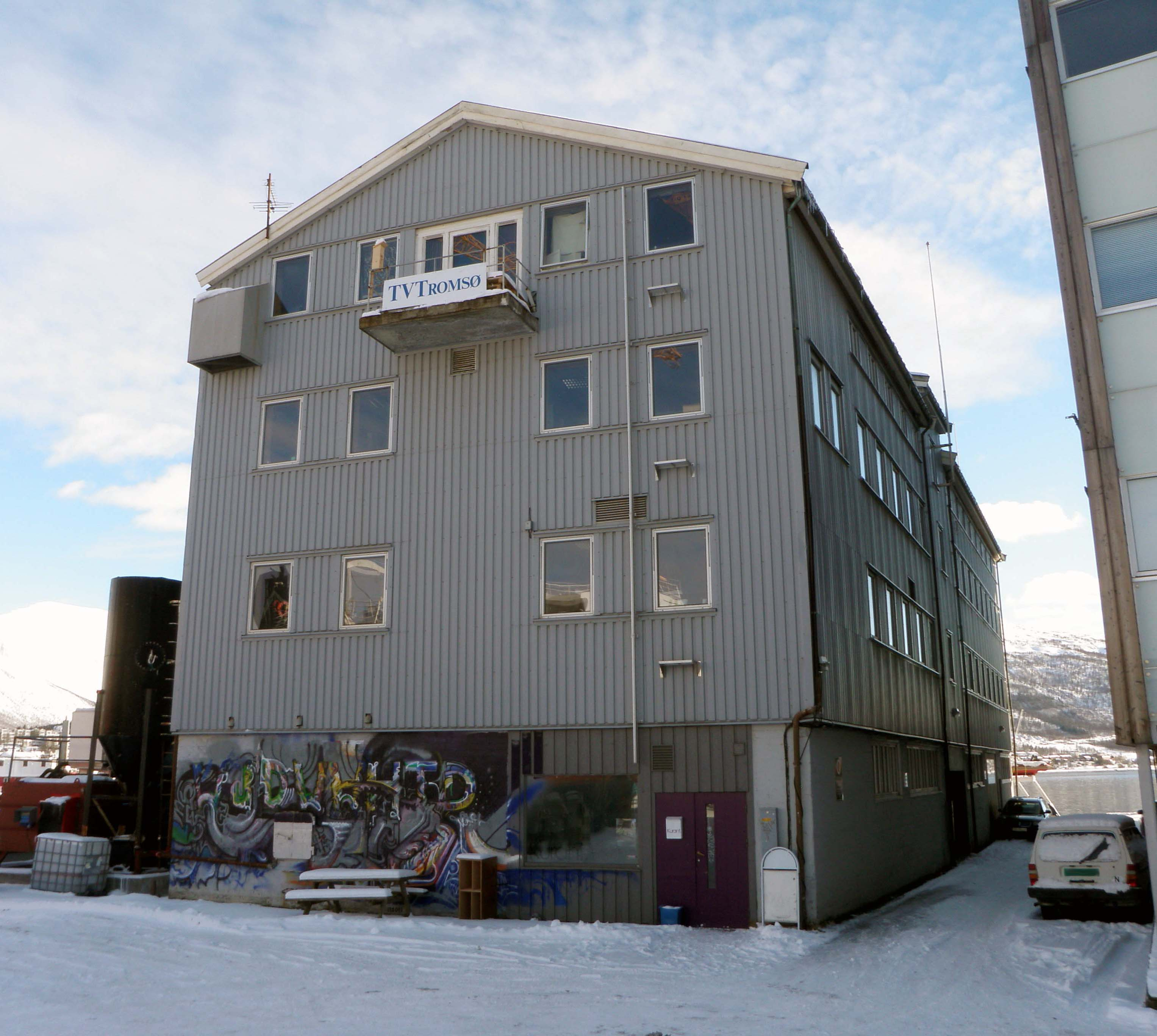 The building Søndre Tollbodgate 17 in Tromsø, Troms, Norway, housing amongst other companies, the headquarters of the newspaper Ruijan Kaiku and the former offices of the defunct local TV station TVTromsø. The art studio Kurant is housed in the first storey.